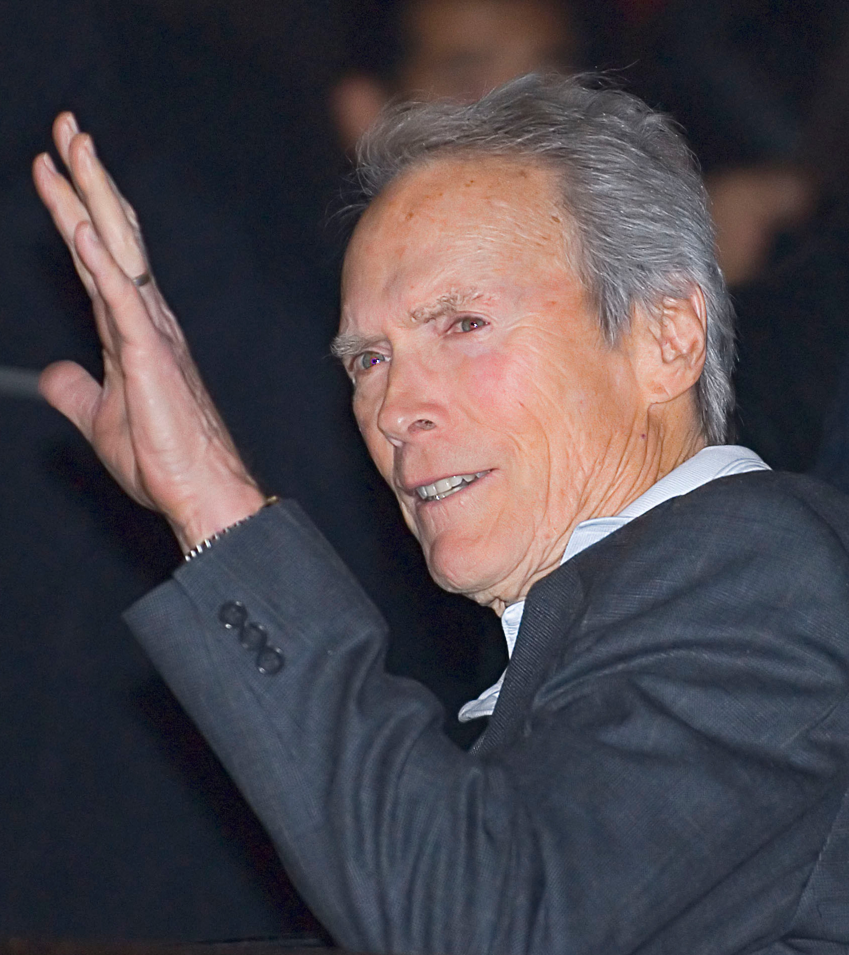 Clint Eastwood leaving the press conference for "Letters from Iwo Jima", Hyatt Hotel, Potsdamer Platz, Berlin